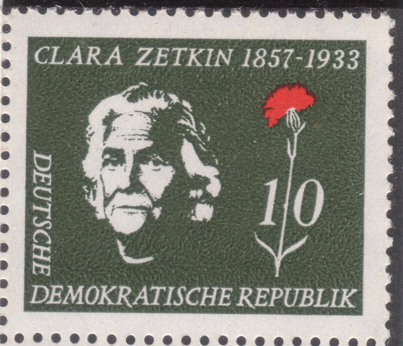 100th annivers. of the the birthday of Clara Zetkin Graphic designer: Skribella Ausgabepreis: 10 Pf First Day of Issue / Erstausgabetag: 5. Juli 1957 Michel-Katalog-Nr: DDR 592